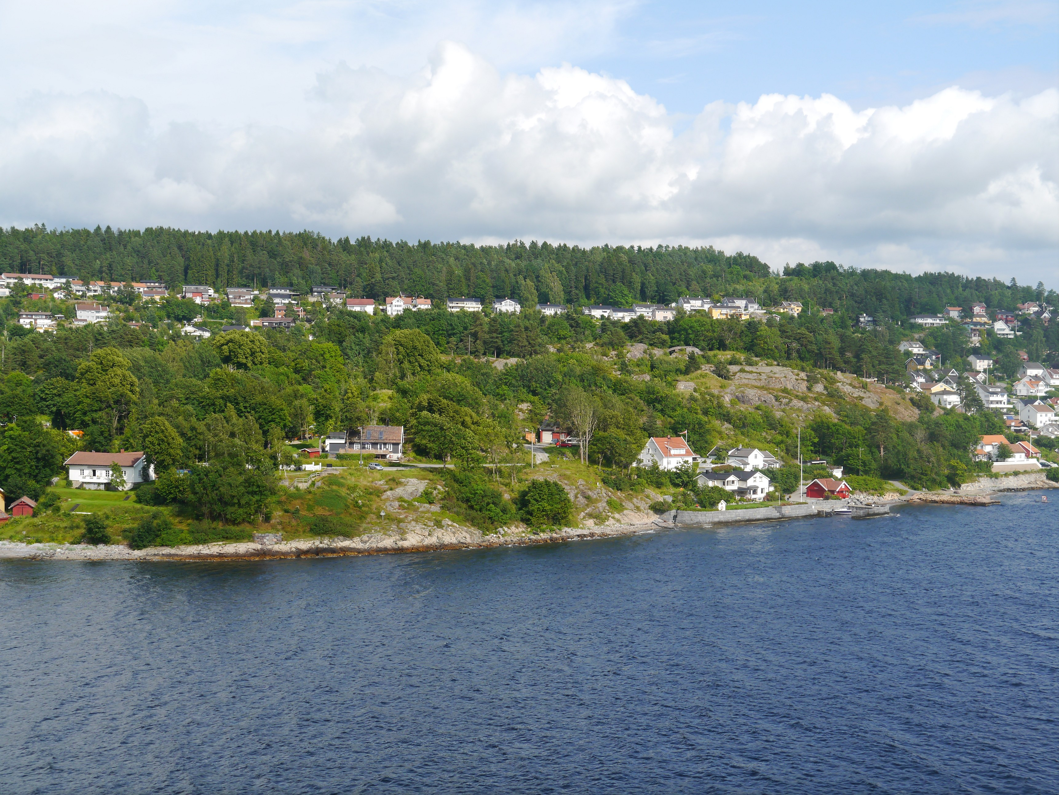 the Oslofjorden, Southern Norway